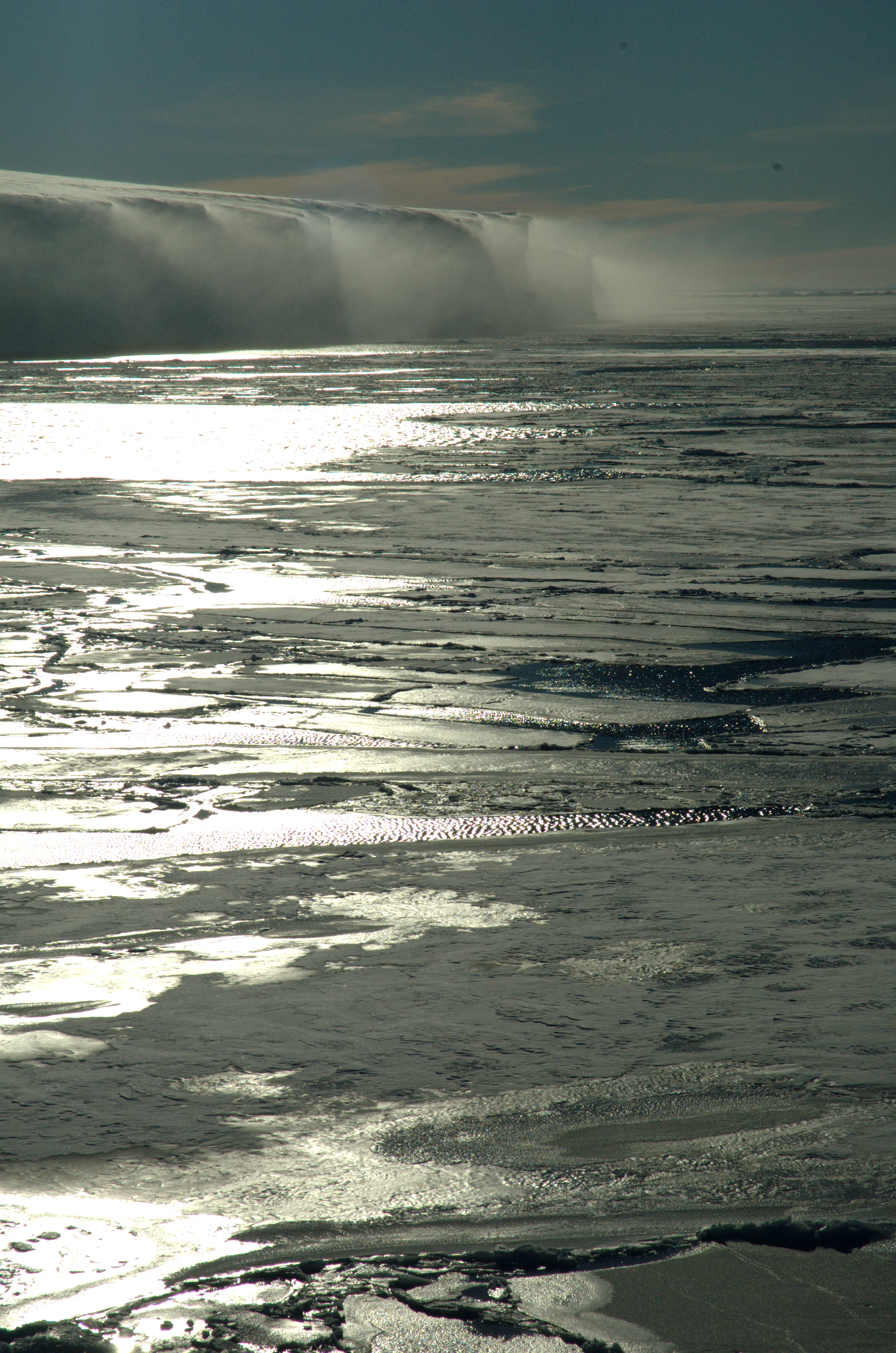 Katabatic winds, on an ice shelf in the Bellingshausen Sea, Antarctica